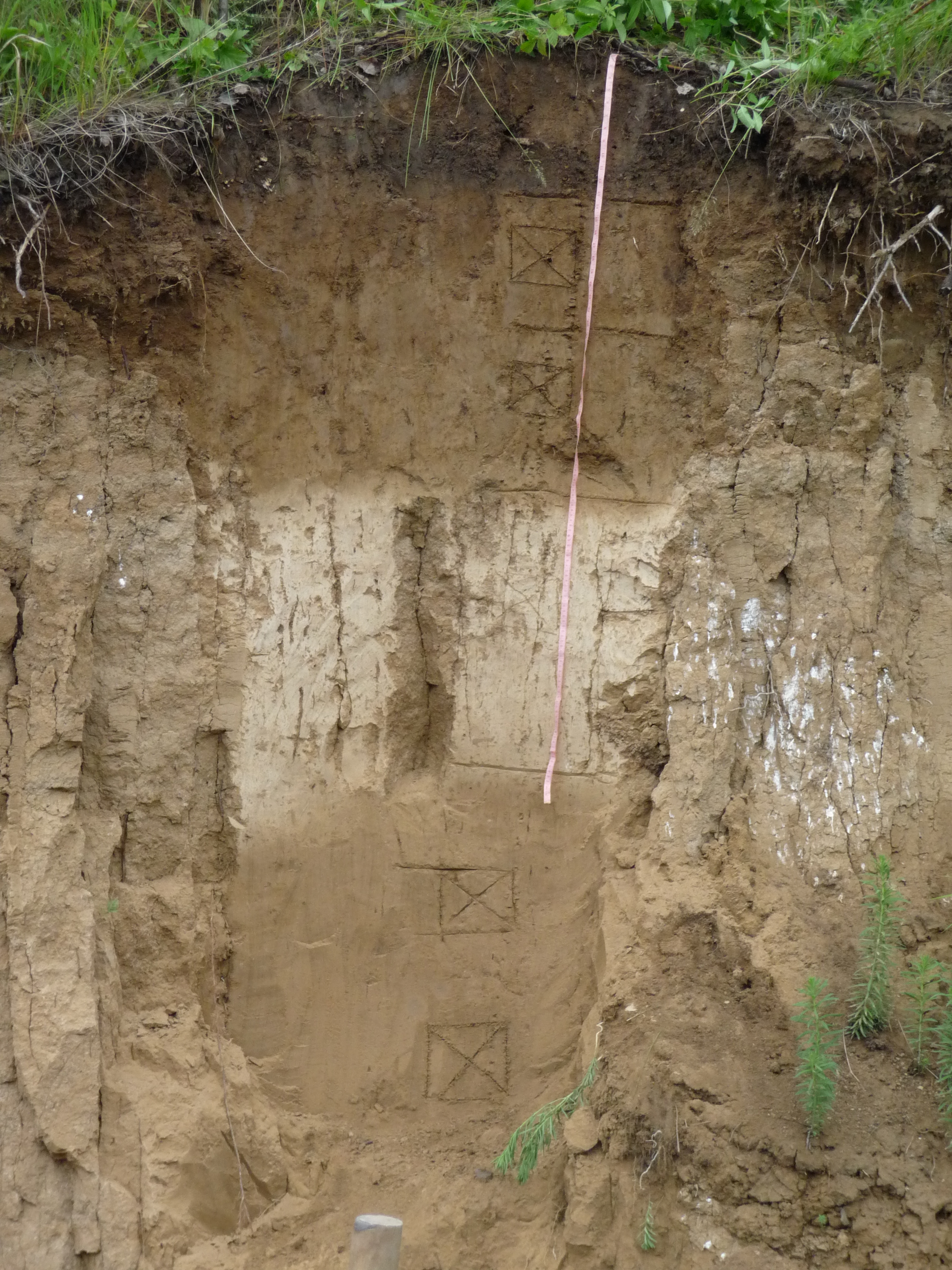 Gray Forest soil